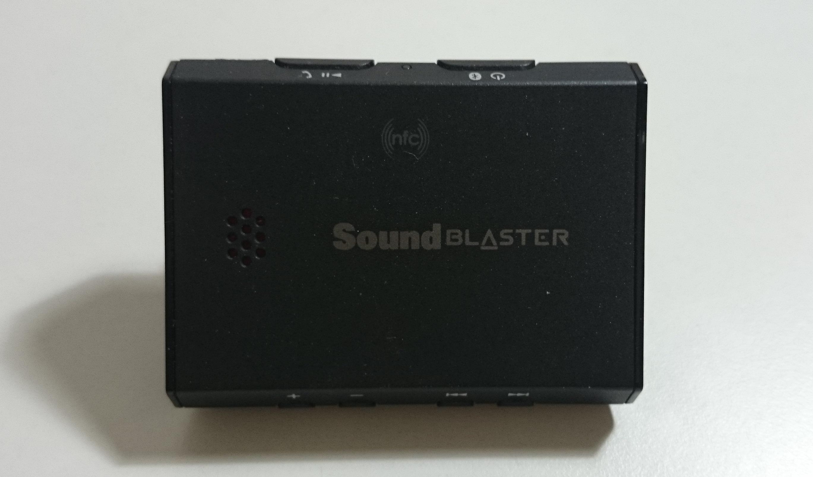 Sound Blaster E3 Own Work